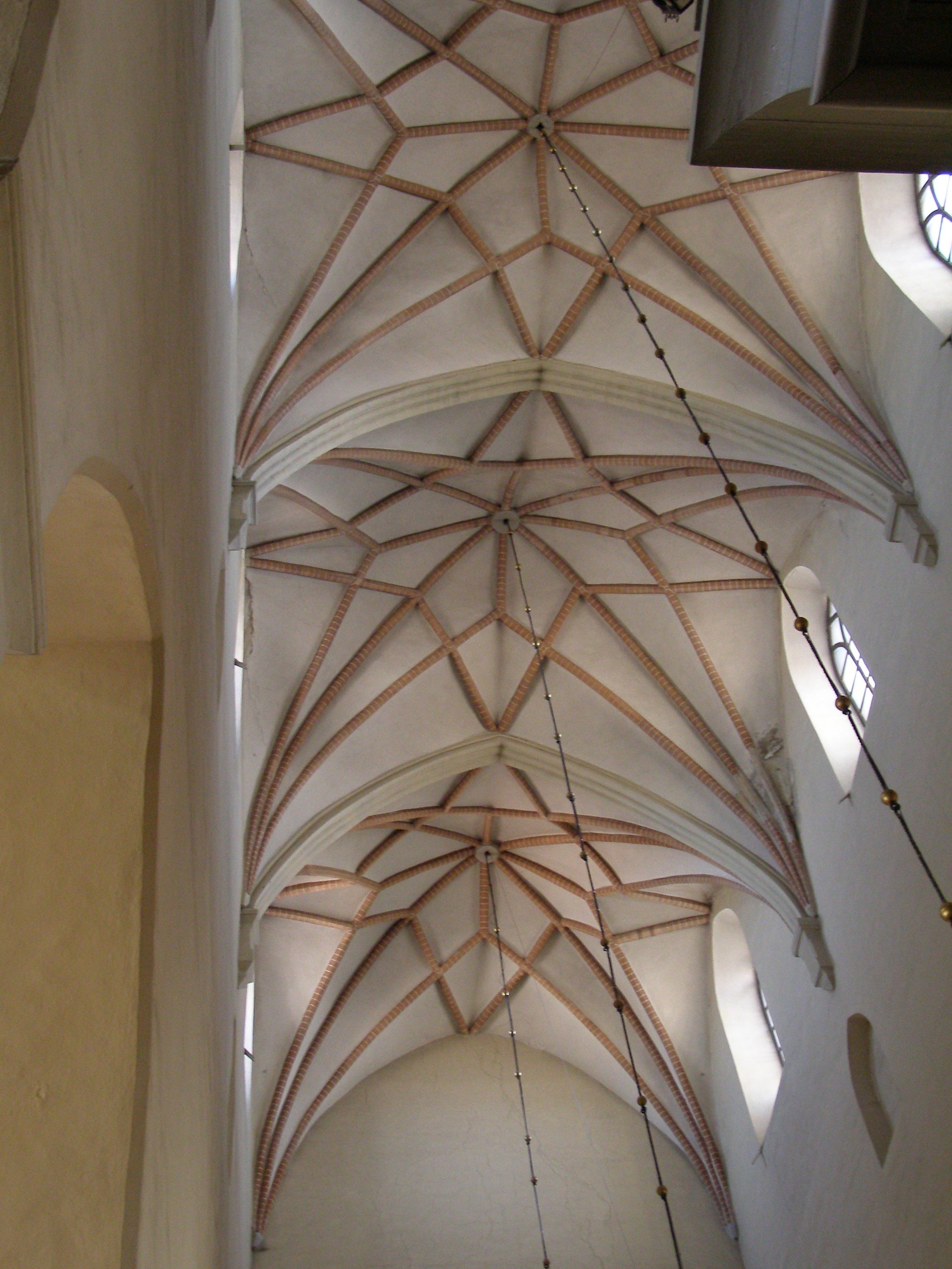 St. Olav`s Church in Tallinn